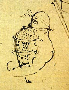 Drawing by Leonardo da Vinci - Diving Suit